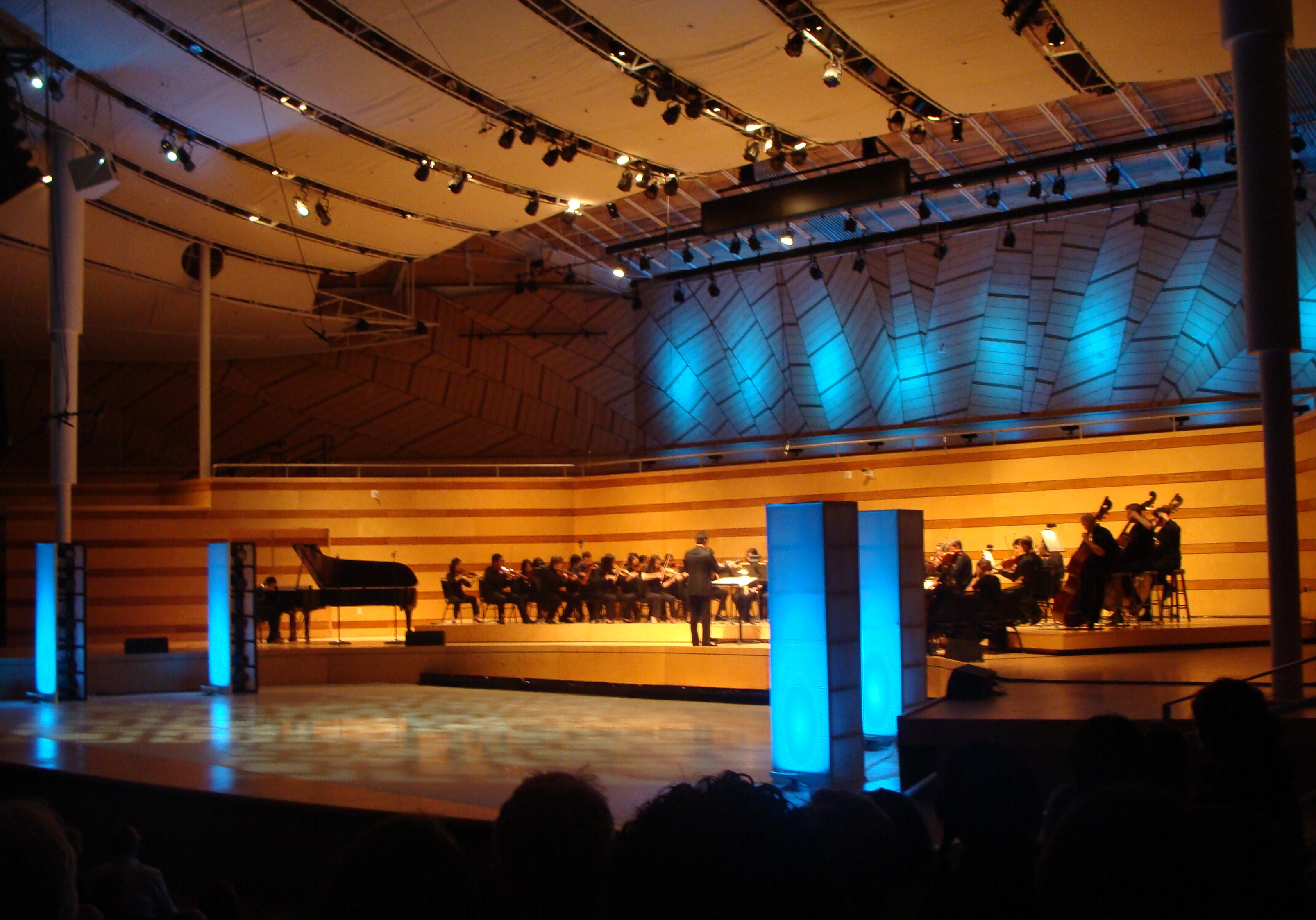 The Aspen Concert Orchestra, Aspen Music Festival and School, August 16, 2010.